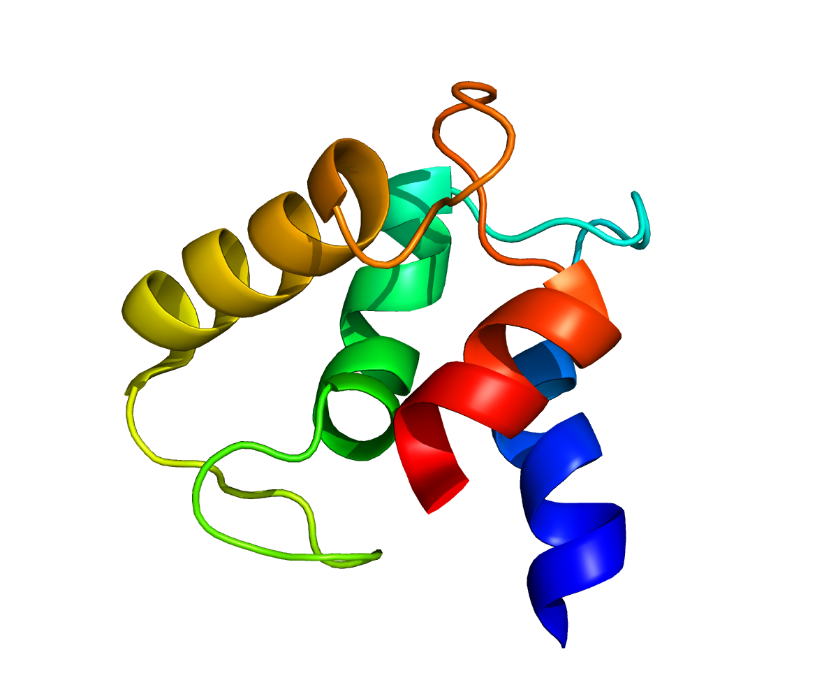 Structure of protein MCFD2.Based on PyMOL rendering of PDB 2VRG.